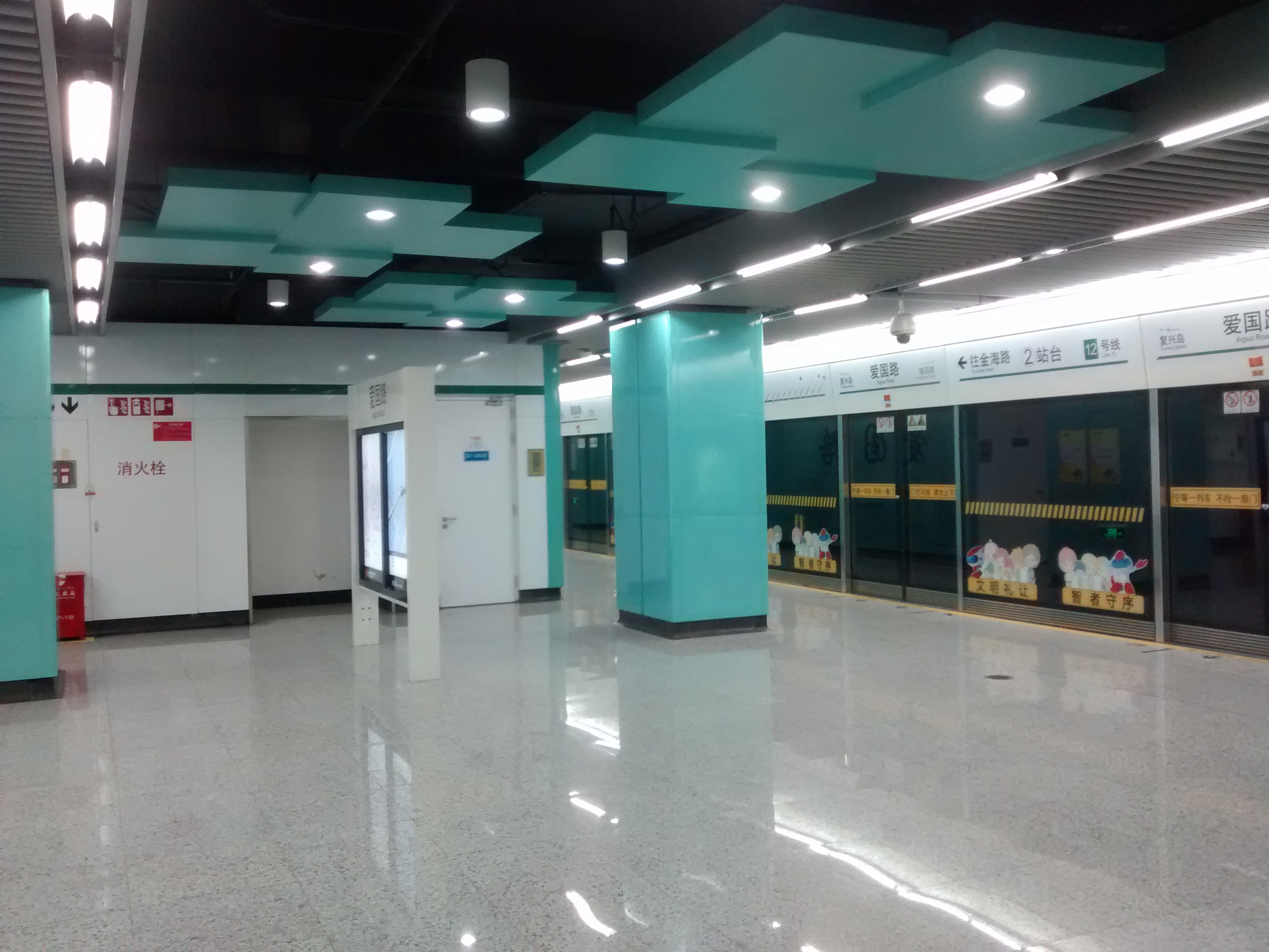 Aiguo Road Station, Shanghai